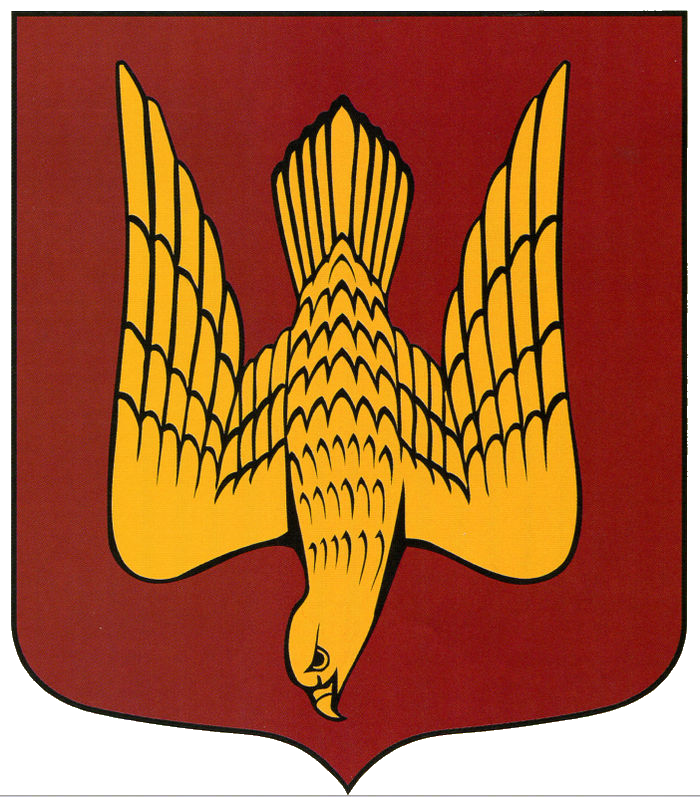 Staraya Ladoga (Leningrad oblast), coat of arms